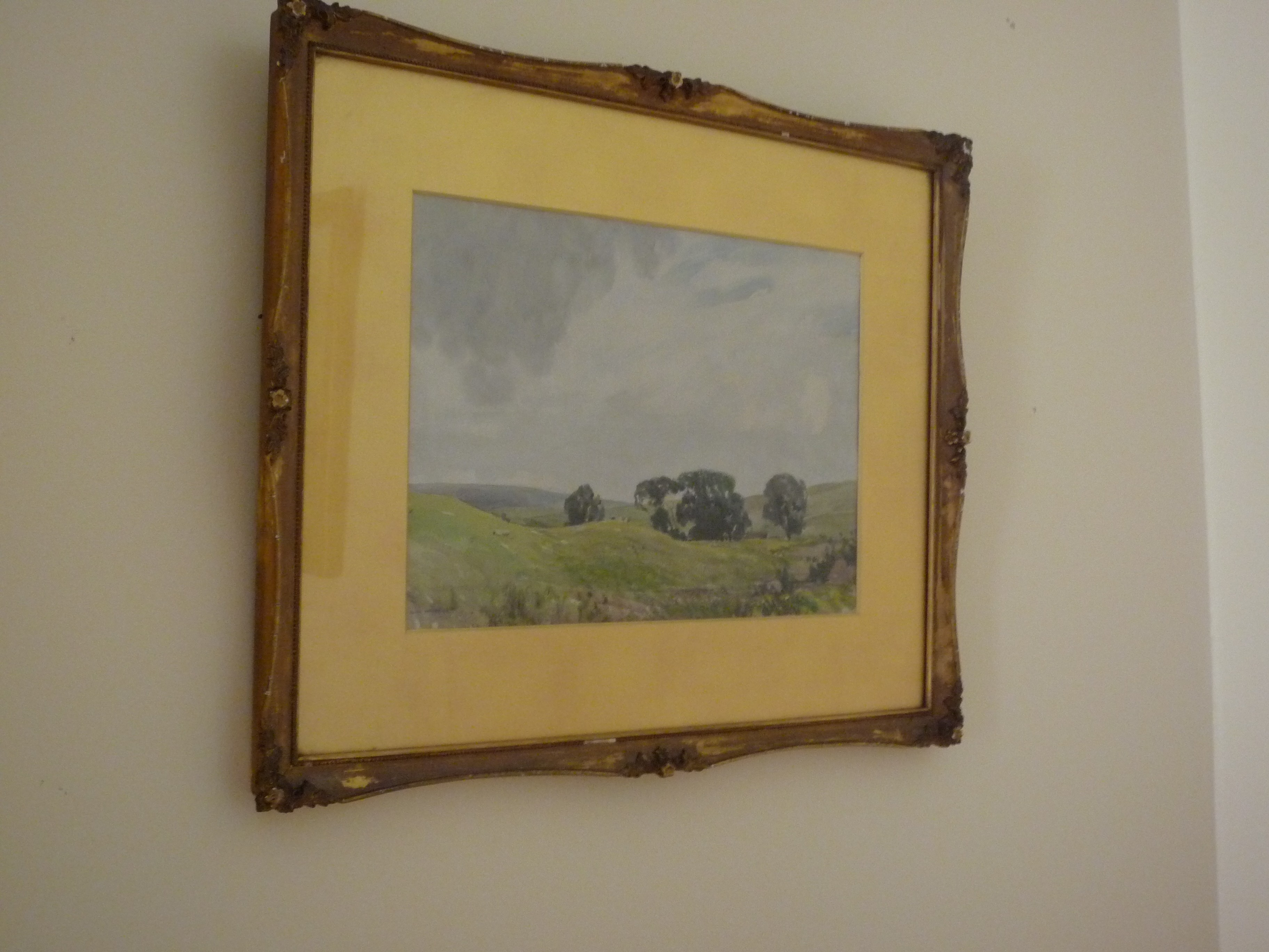 A watercolour of a country scene